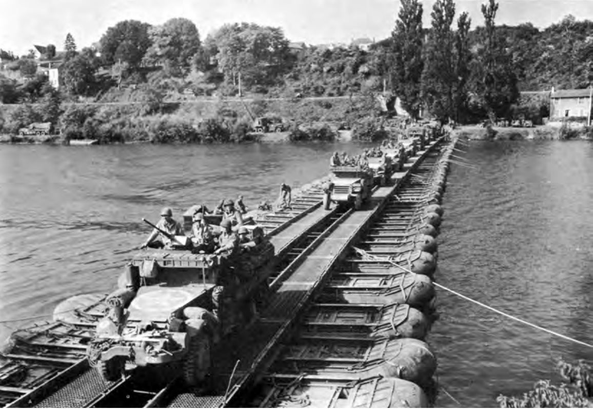 Vehicles of the U.S. 3rd Armored Division cross the Seine River in France, August 1945